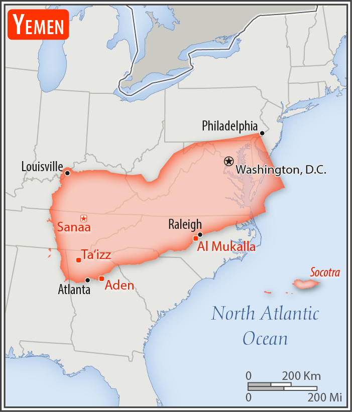 Comparison of the areas of two country. The area of Yemen with biggest cities (red) overlay the area of the United States of America (gray background).